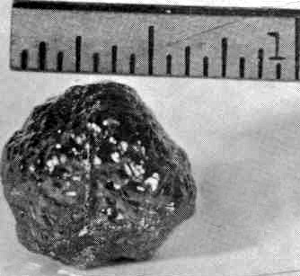 Star of Murfreesboro diamond.